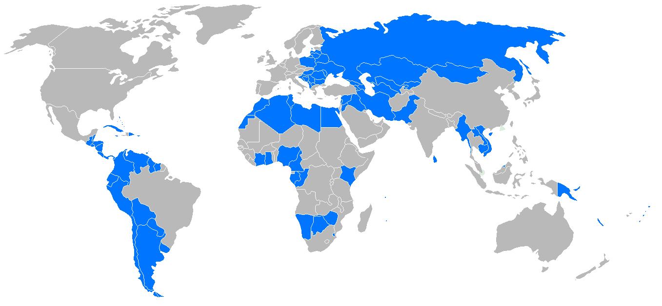 Map of countries which are neither newly-industrialized countries nor least-developed countries.